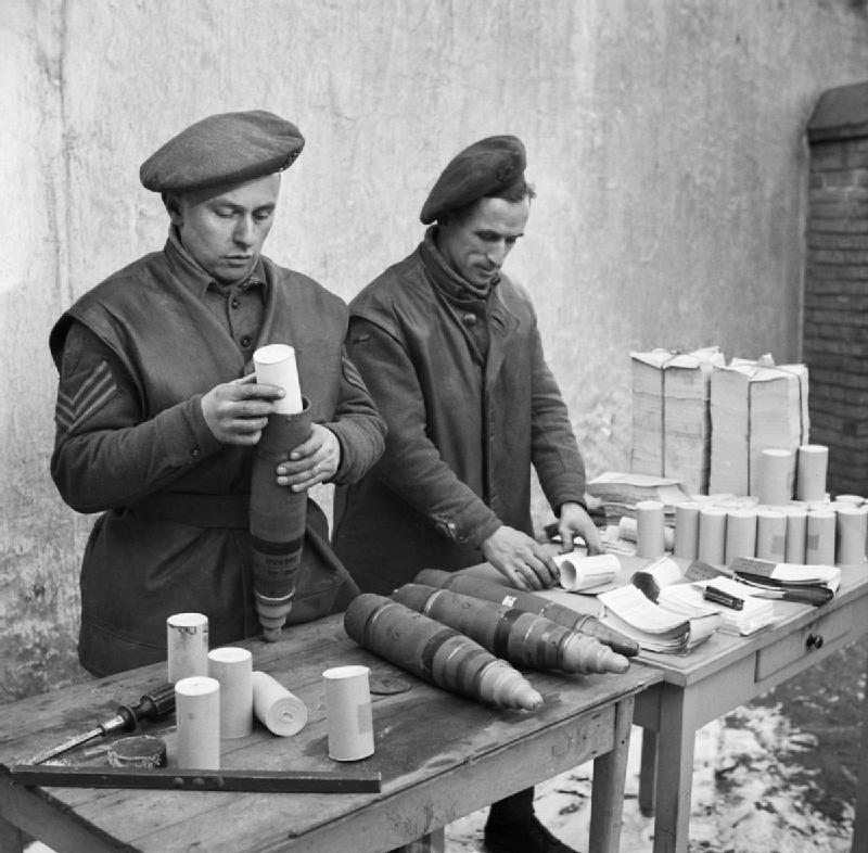 Gunners of 'E' Troop, 124 Battery, 151st Field Regiment filling 25-pounder shells with propaganda leaflets, Roermond, Holland.